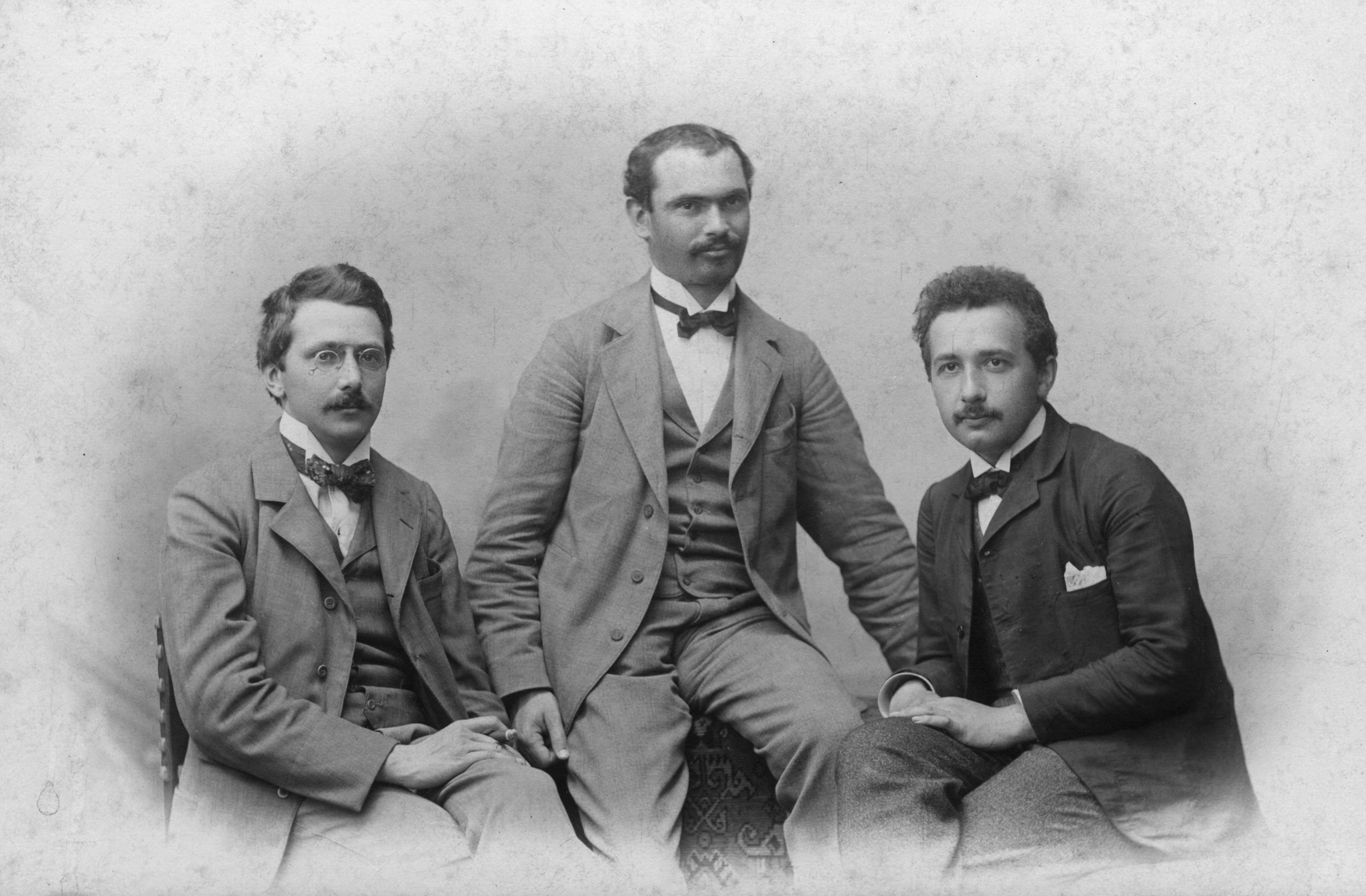 Albert Einstein with friends Conrad Habicht and Maurice Solovine, ca. 1903 I believe this photo is in the public domain because it's from 1903.